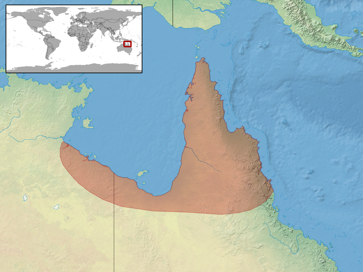 geographic distribution of Gehyra borroloola (Native: Australia (Northern Territory, Queensland))